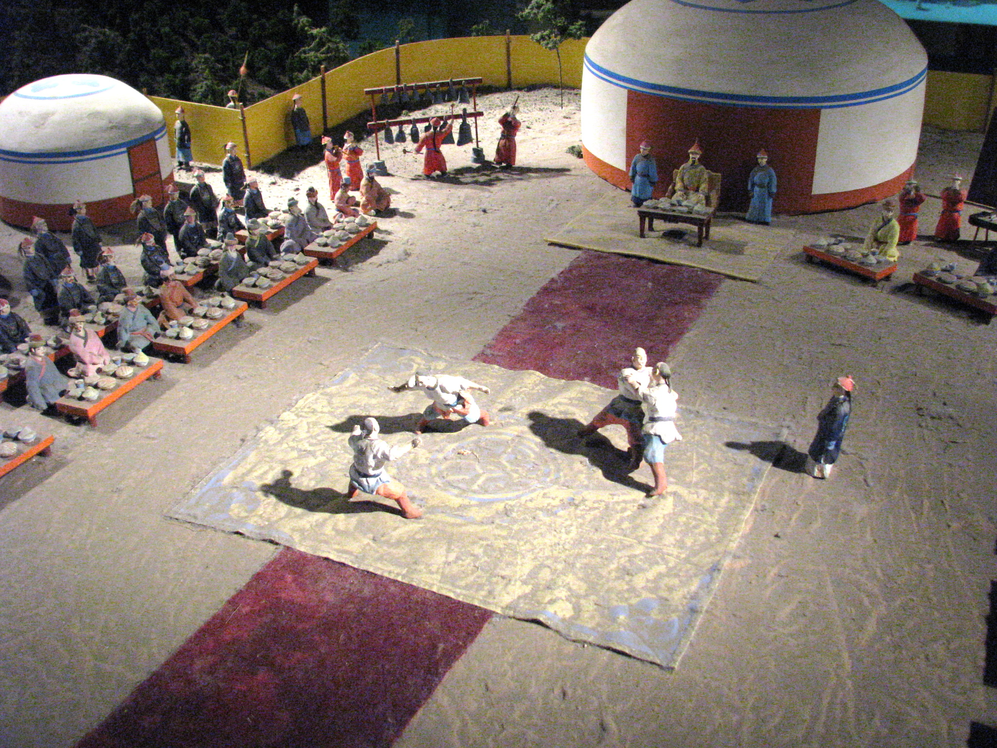 中国式摔跤 Chengde, Putuo Zongchen temple, pedagogic diorama of a chinese type wrestling competition, Qing dynasty.